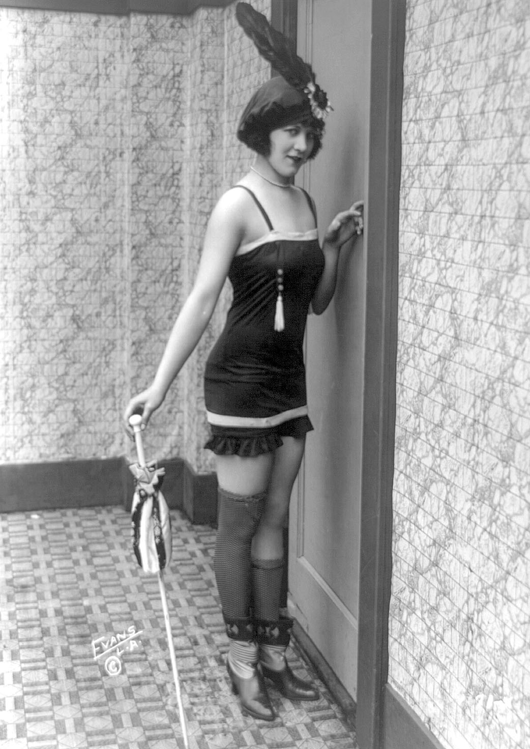 Actress Marie Prevost.